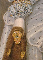 Unknown Lady